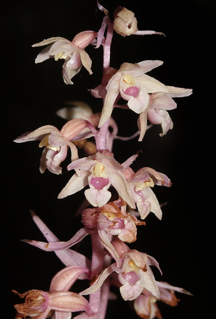 Epipactis purpurata lus. rosea, Schwäbische Alb, Germany